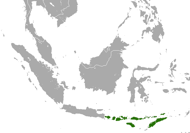 Nusatenggara Short-nosed Fruit Bat (Cynopterus nusatenggara) range